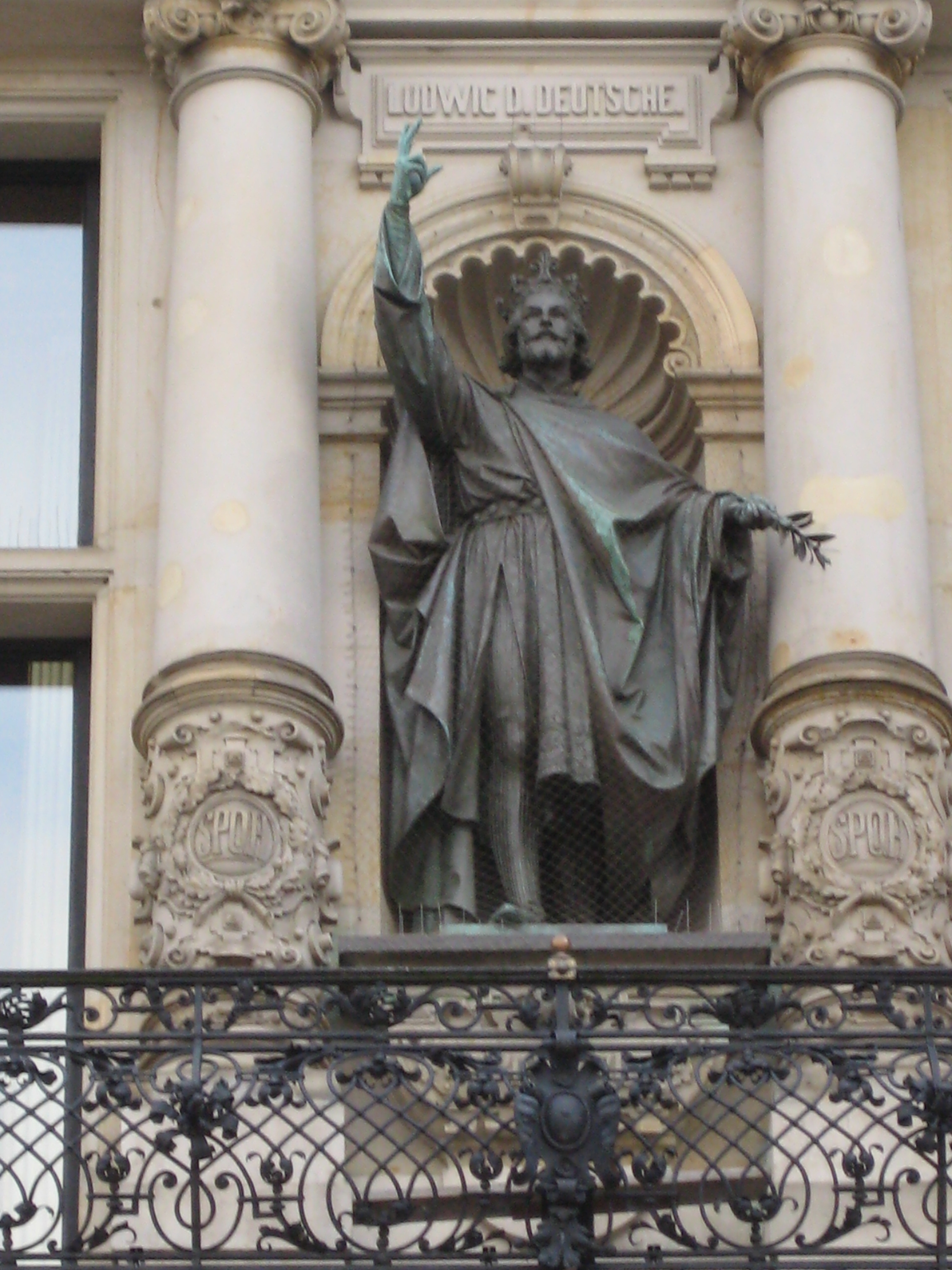 Hamburg, Town Hall, Ludwig the german